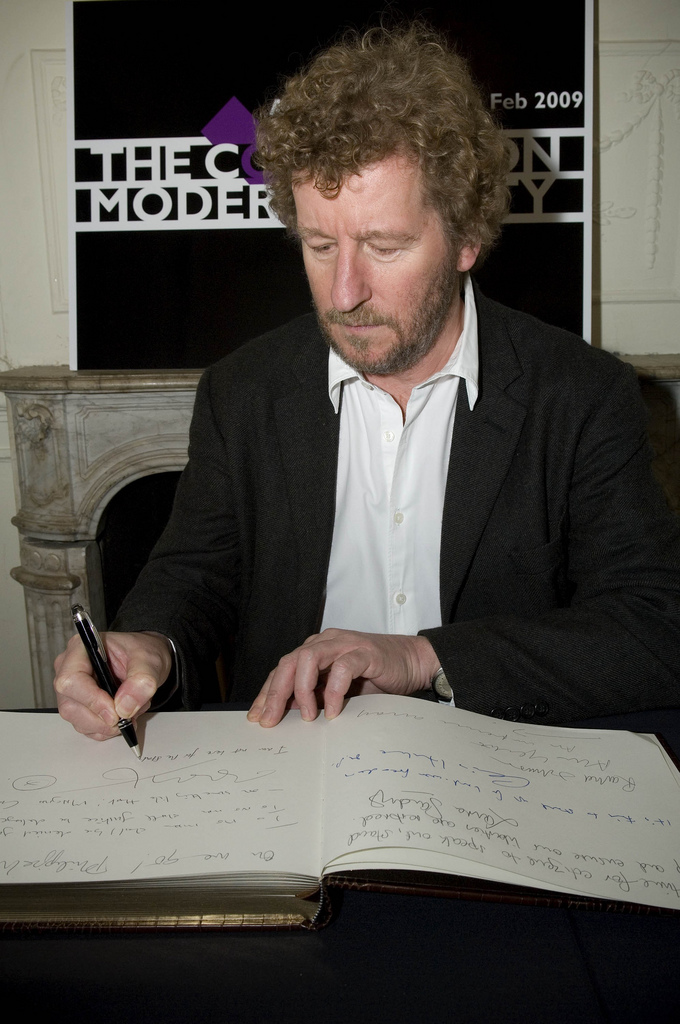 Sebastian Faulks in London, England. He signs to pledges his support to The Convention on Modern Liberty at the start of a campaign to halt Britain's slide towards a perceived Big Brother state. The launch took place at The Foreign Press Association in Pall Mall, London, on 15 January 2010.